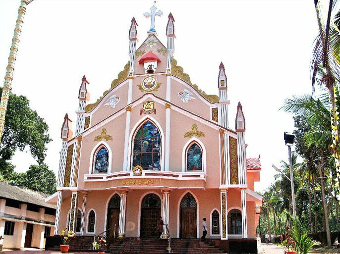 This pic was taken after the renovation of the church in March 2011